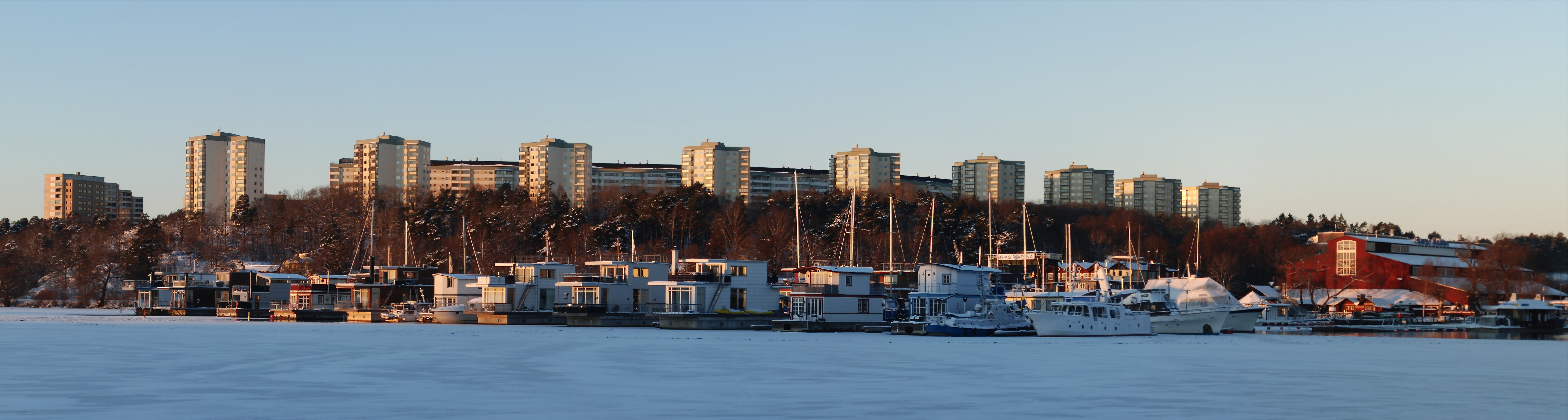 Huvudsta and Pampas Marina, seen from Stadshagen (Kungsholmen).